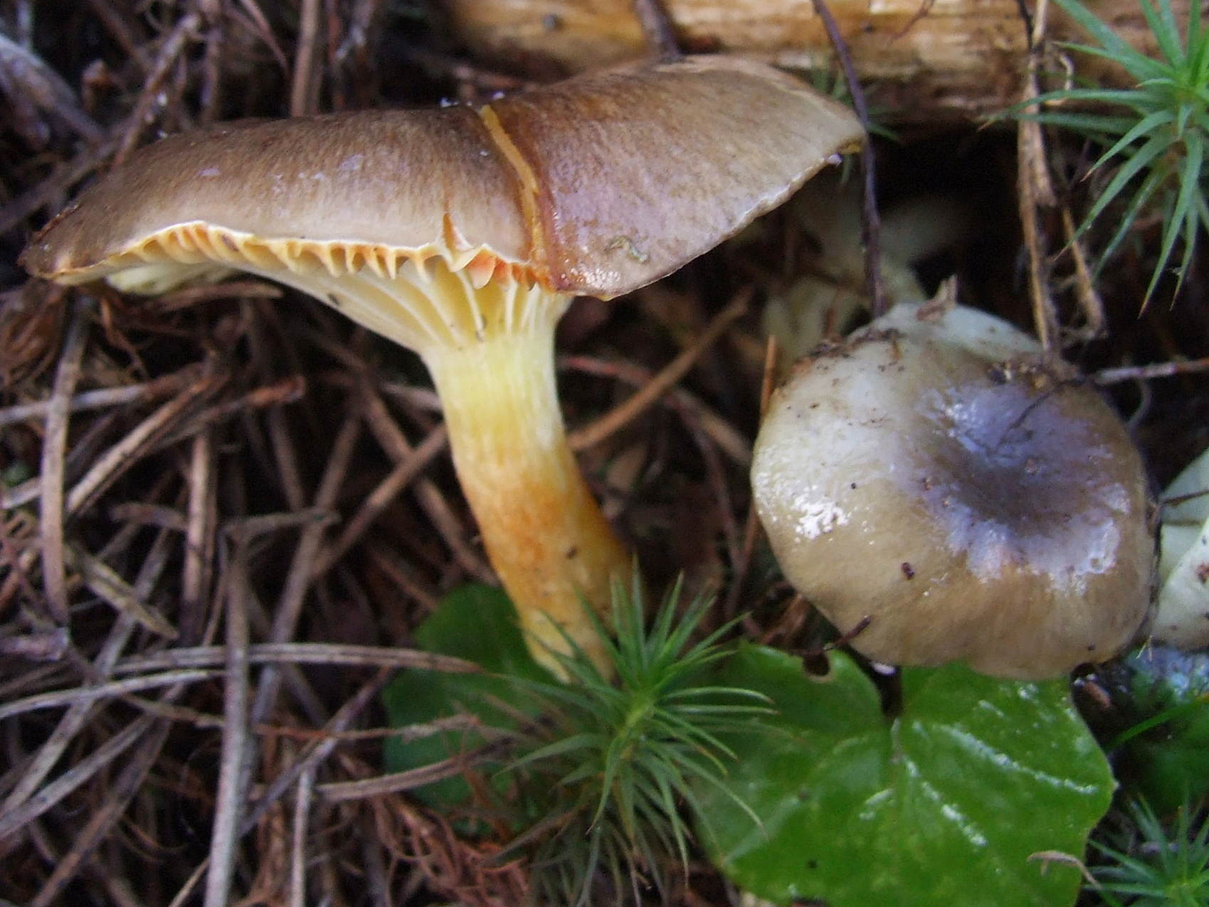 Hygrophorus hypothejus